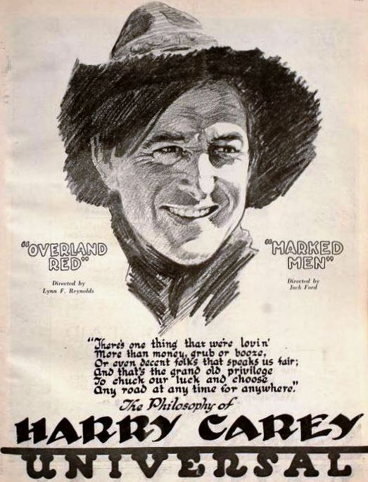 Drawing of Harry Carey on page 3039 of the April 3, 1920 Motion Picture News, for the release of the two western films Overland Red (1920) and Marked Men (1919).